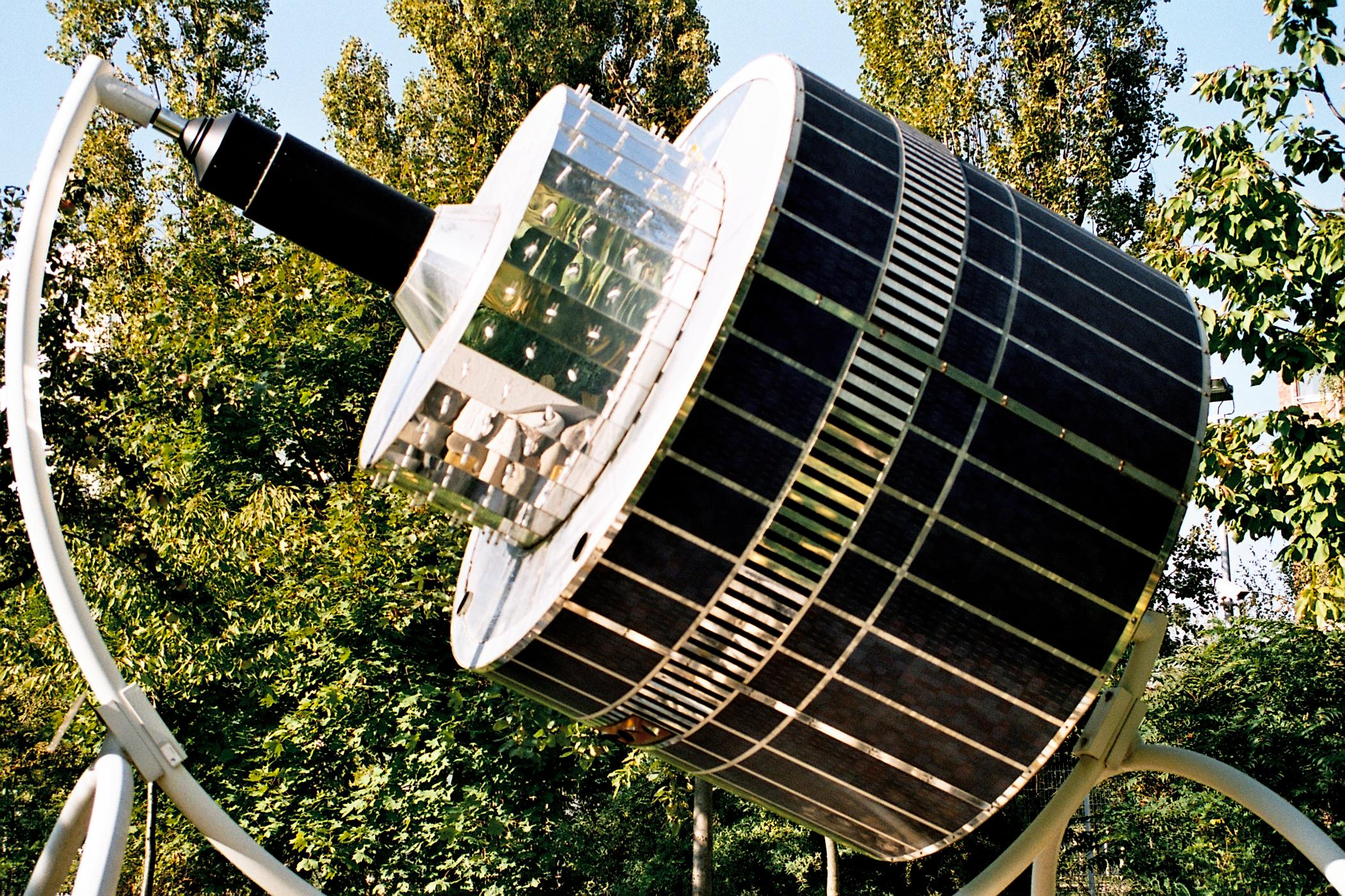 Meteosat model, Darmstadt, Germany, at the front of the EUMETSAT building. Taken by me, October 2006.